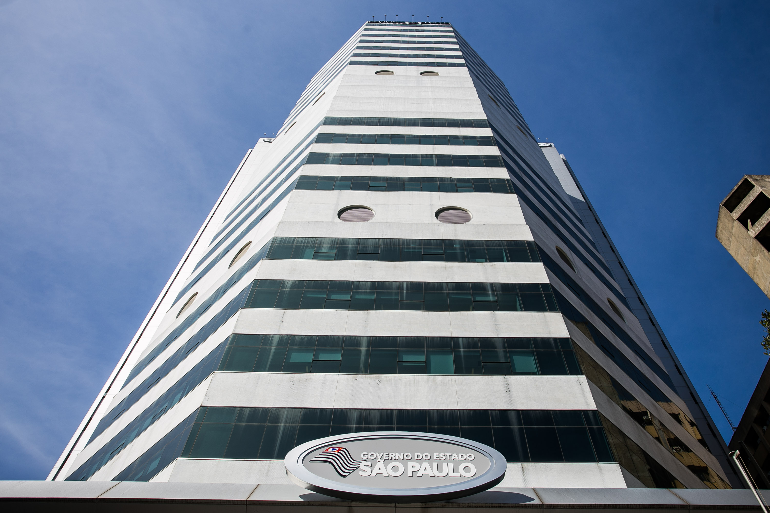 O governador Geraldo Alckmin durante a inauguração do Centro de Simulação Realística em Saúde (CSRS), área instalada no Instituto do Câncer (Icesp). Data: 26/02/2015. Local: São Paulo/SP.Foto: Edson Lopes Jr/A2AD